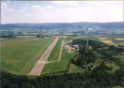 Flughafen Bayreuth from airside